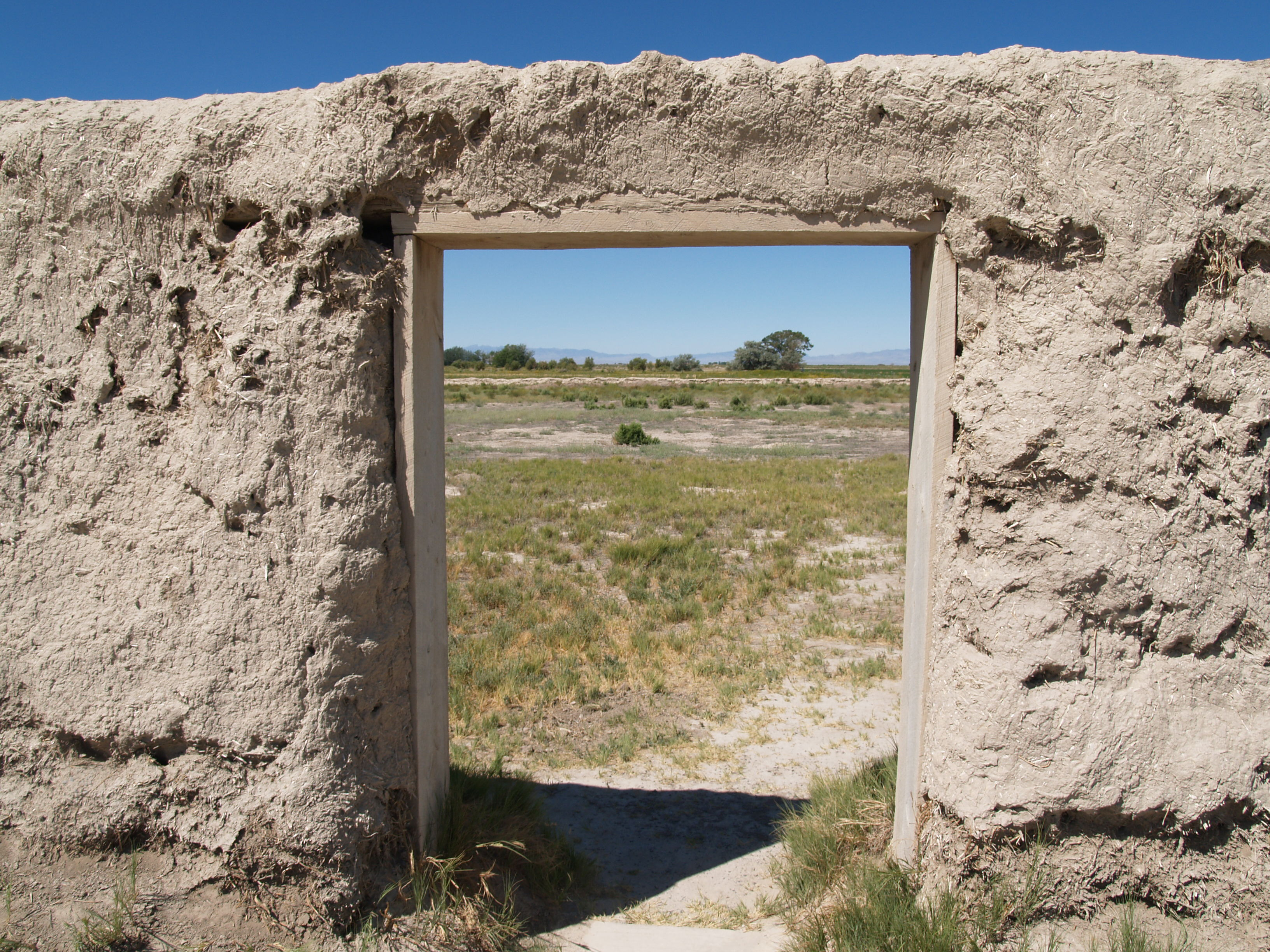 A photo of Fort Deseret in Central Utah.